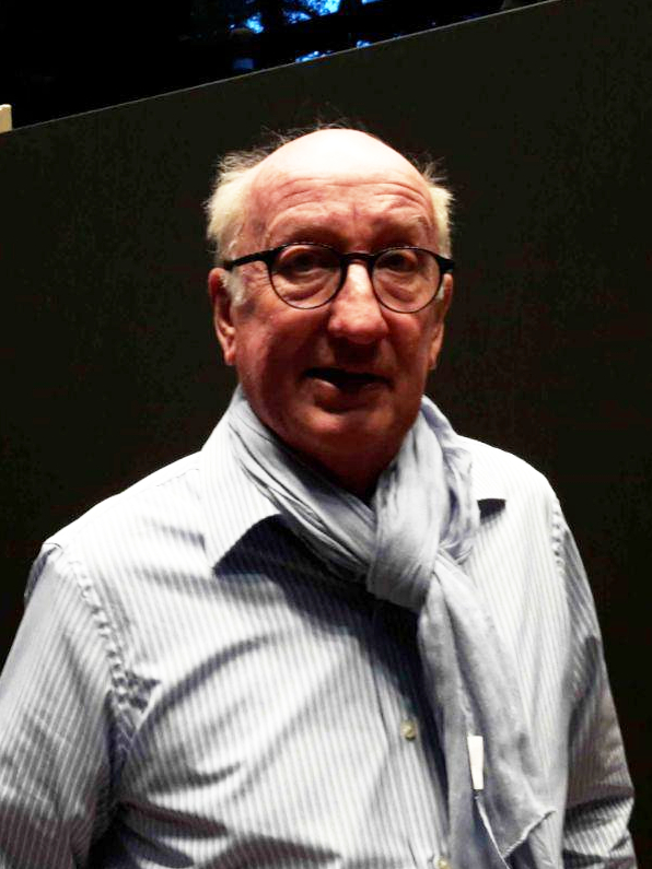 After a speech in Kornwestheim 2019-07-08